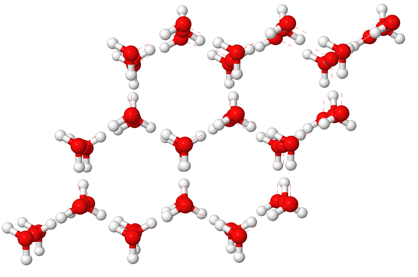 Ice XI, the proton ordered version of normal water ice. ( orthorhombic symmetry, space group Cmc2) Has a similar structure, but the protons are ordered, leading to non-zero dipole along the c-axis. Created with JMol.